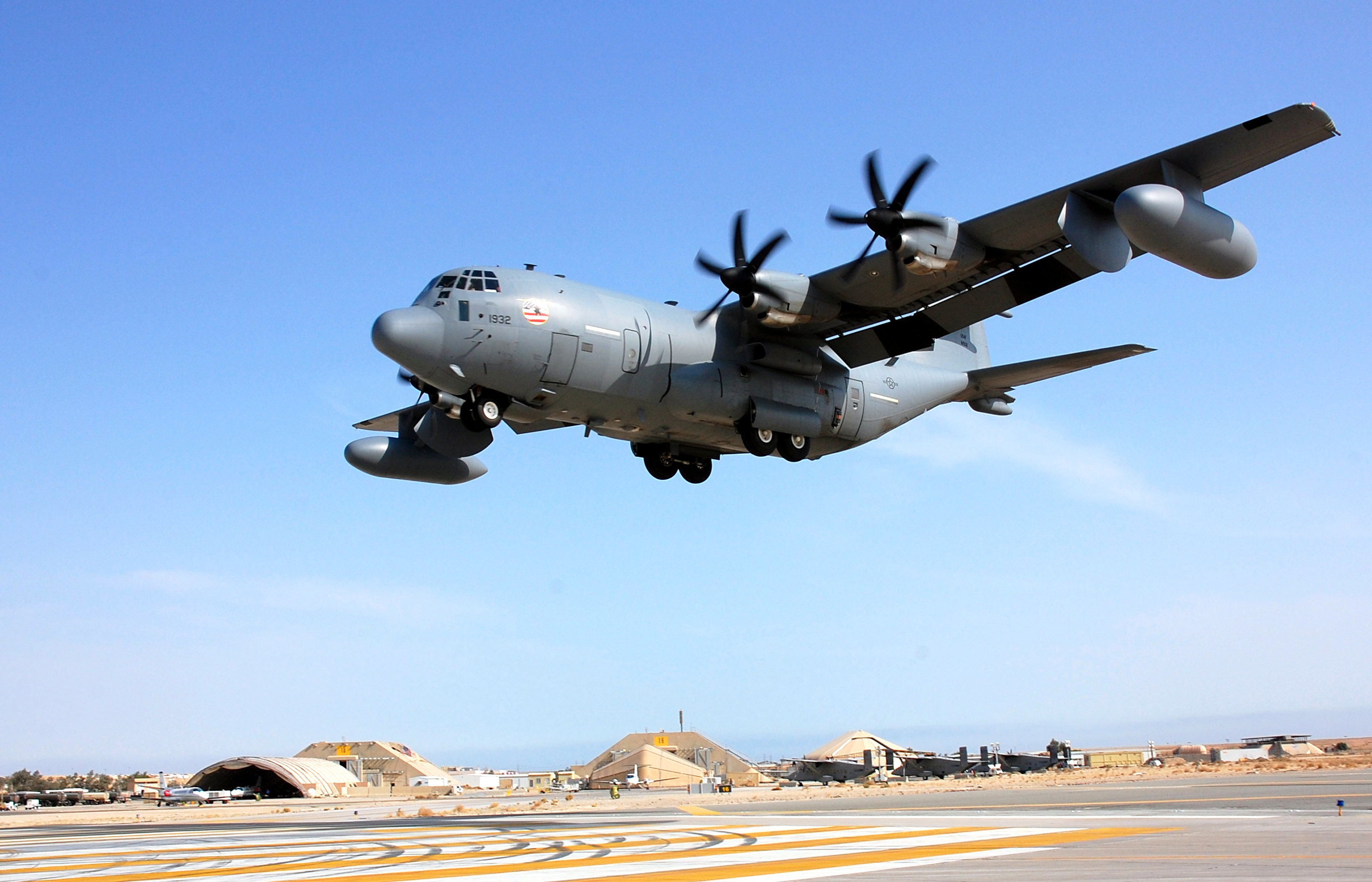 An EC-130J Commando Solo aircraft prepares to land at an air base in Southwest Asia. The EC-130J conducts information operations, psychological operations and civil affairs broadcasts in the AM, FM, HF, TV and military communications bands. (U.S. Air Force photo/Staff Sgt. Tia Schroeder)